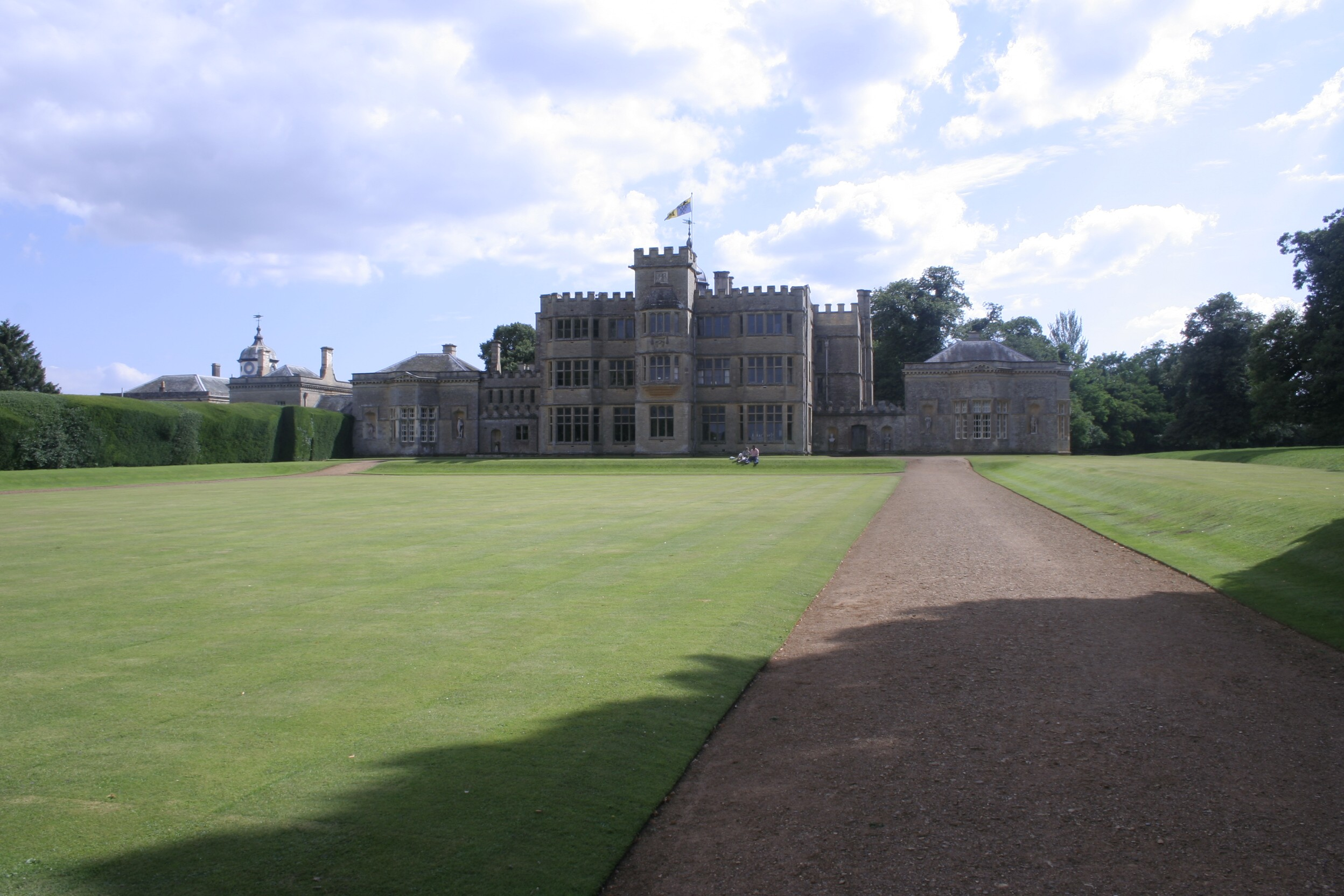 Rousham House